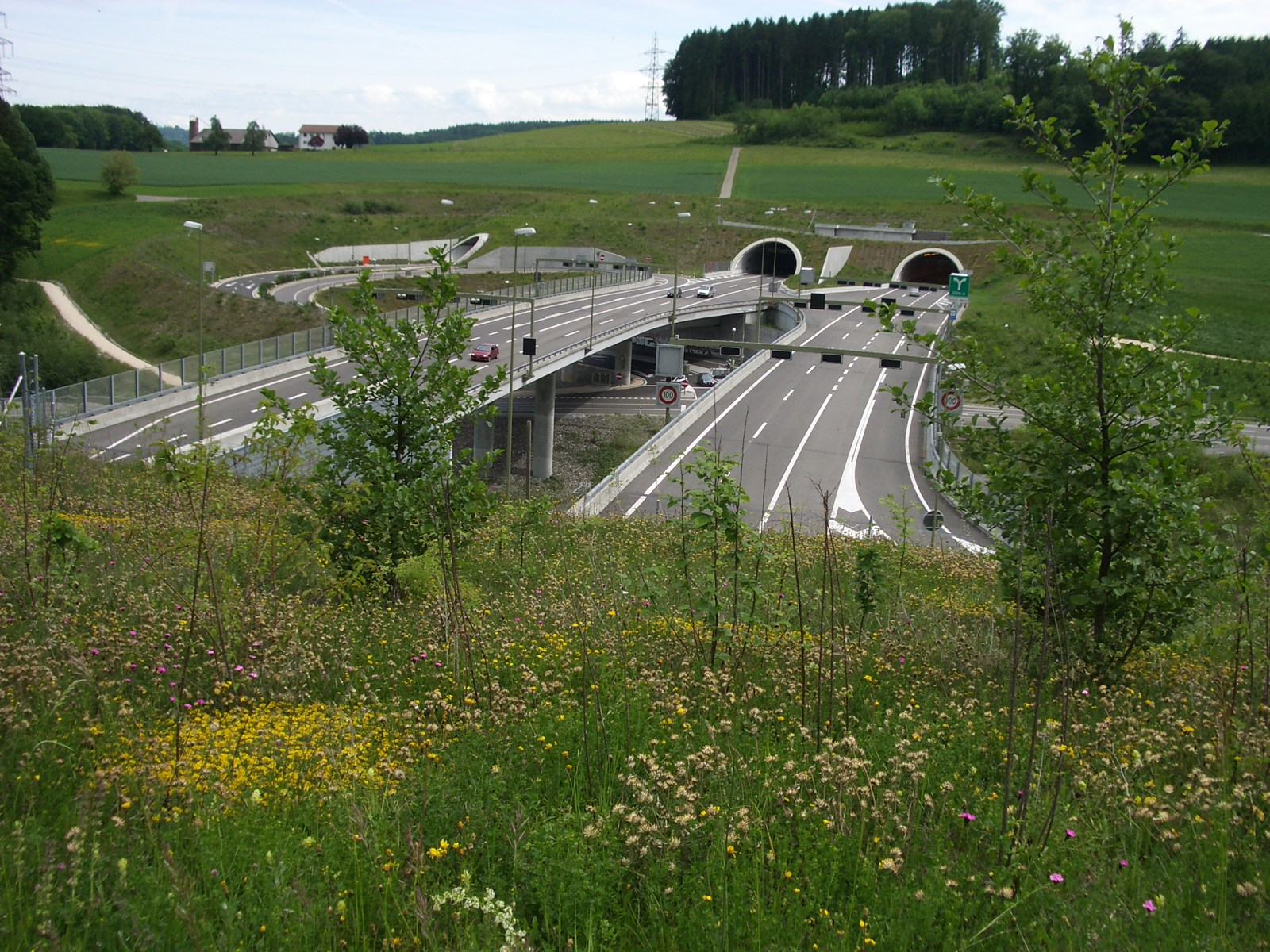 Aeschertunnel, Birmensdorf ZH, Switzerland